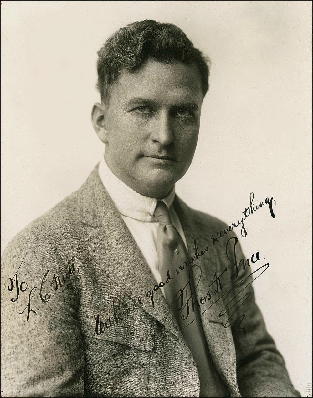 Portrait of American film producer, director, screenwriter, and actor Thomas H. Ince (1880–1924) by Fred Hartsook